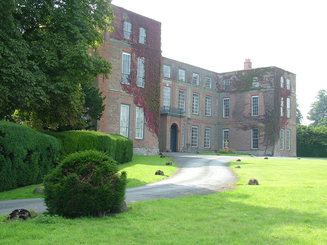 Little Glemham Hall in Little Glemham, Suffolk, England. A Grade I listed manor.